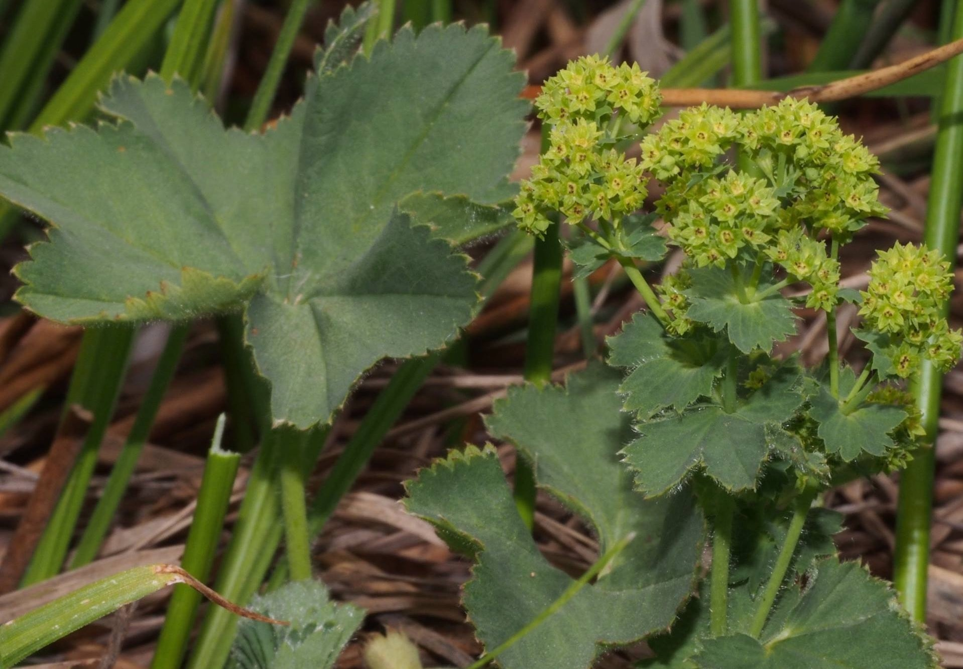 Alchemilla diademata Rothm. In Jabal Sannine (Mount Sannine)